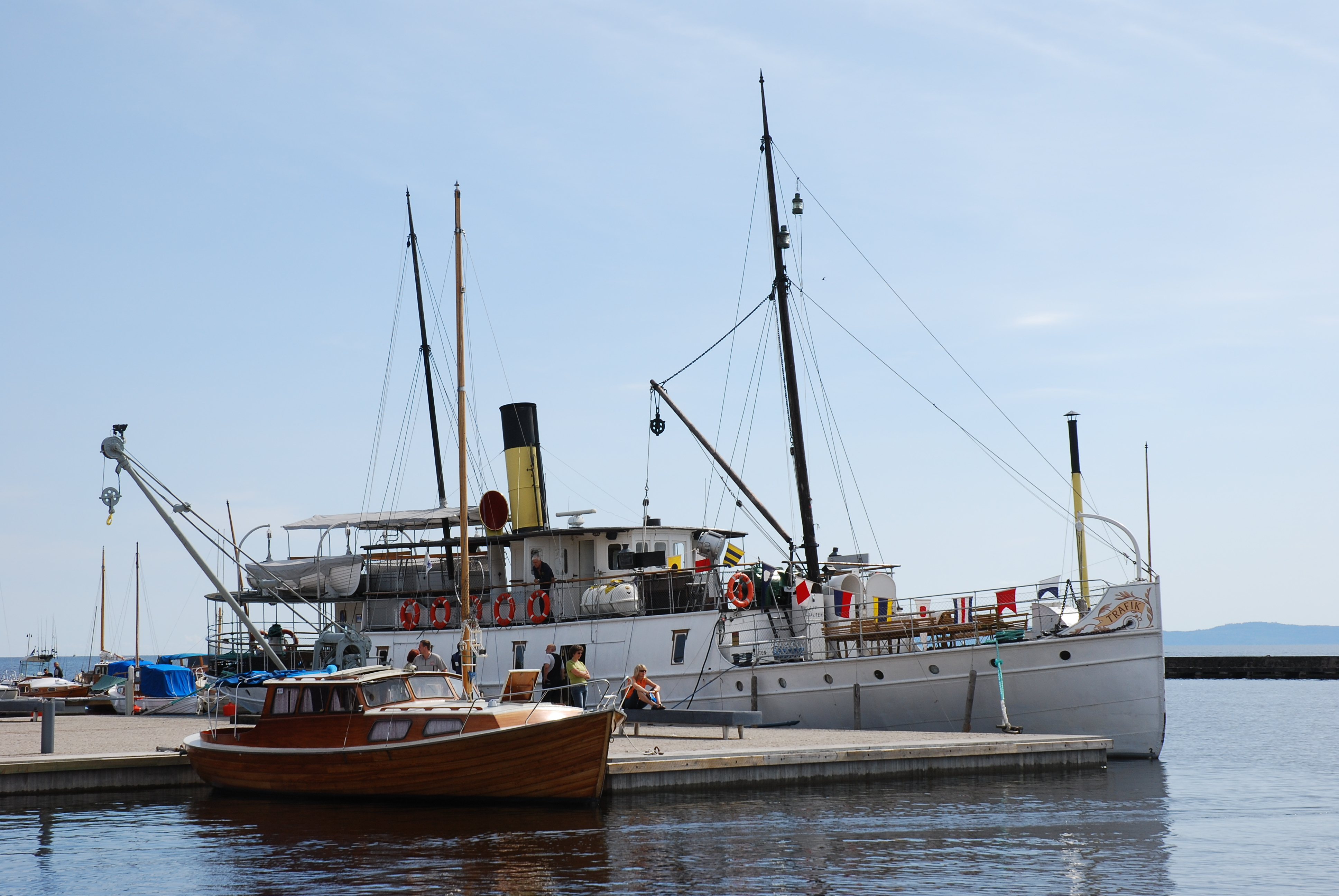 Passenger Ship S/S Trafik moored in Hjo Harbour at lake Vattern in Sweden, July 2007. Photo: Bengt Oberger This is an image of the protected Swedish ship S/S Trafik, with call sign SGYK .